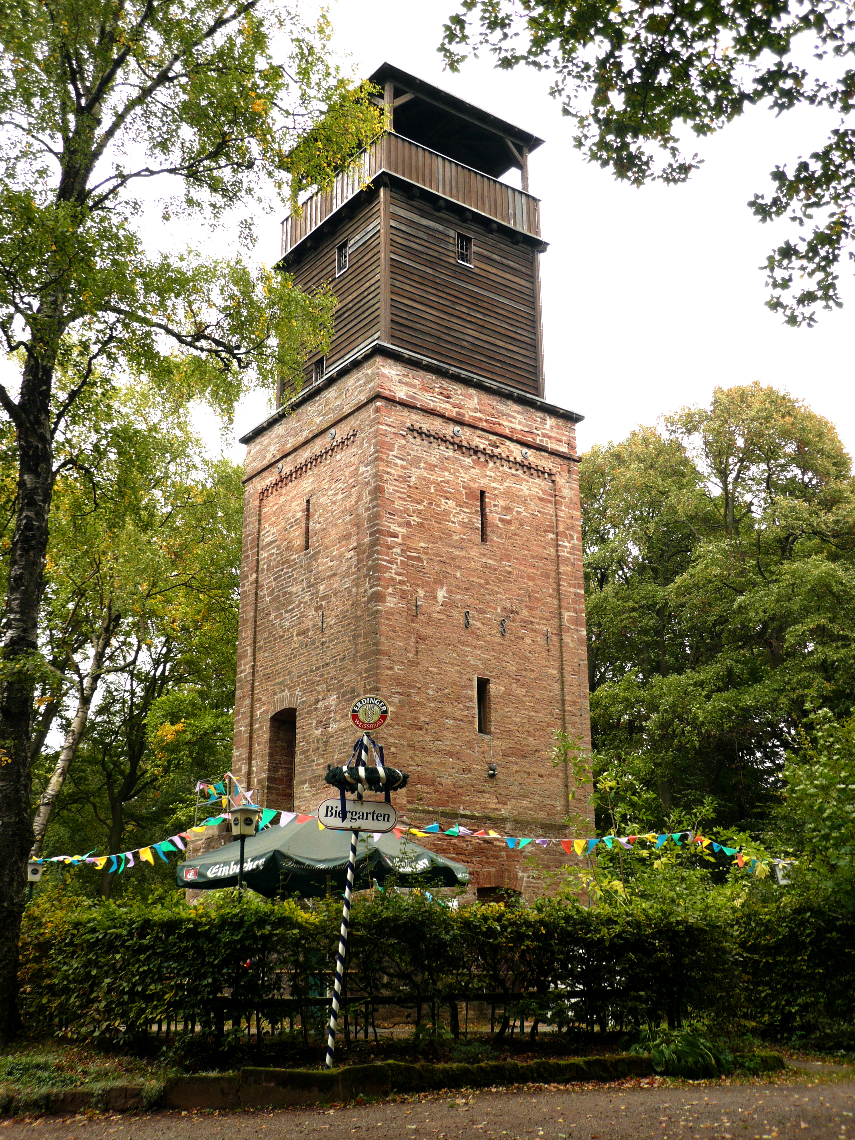 Hildesheimer Aussichtsturm in Hildesheimer Wald